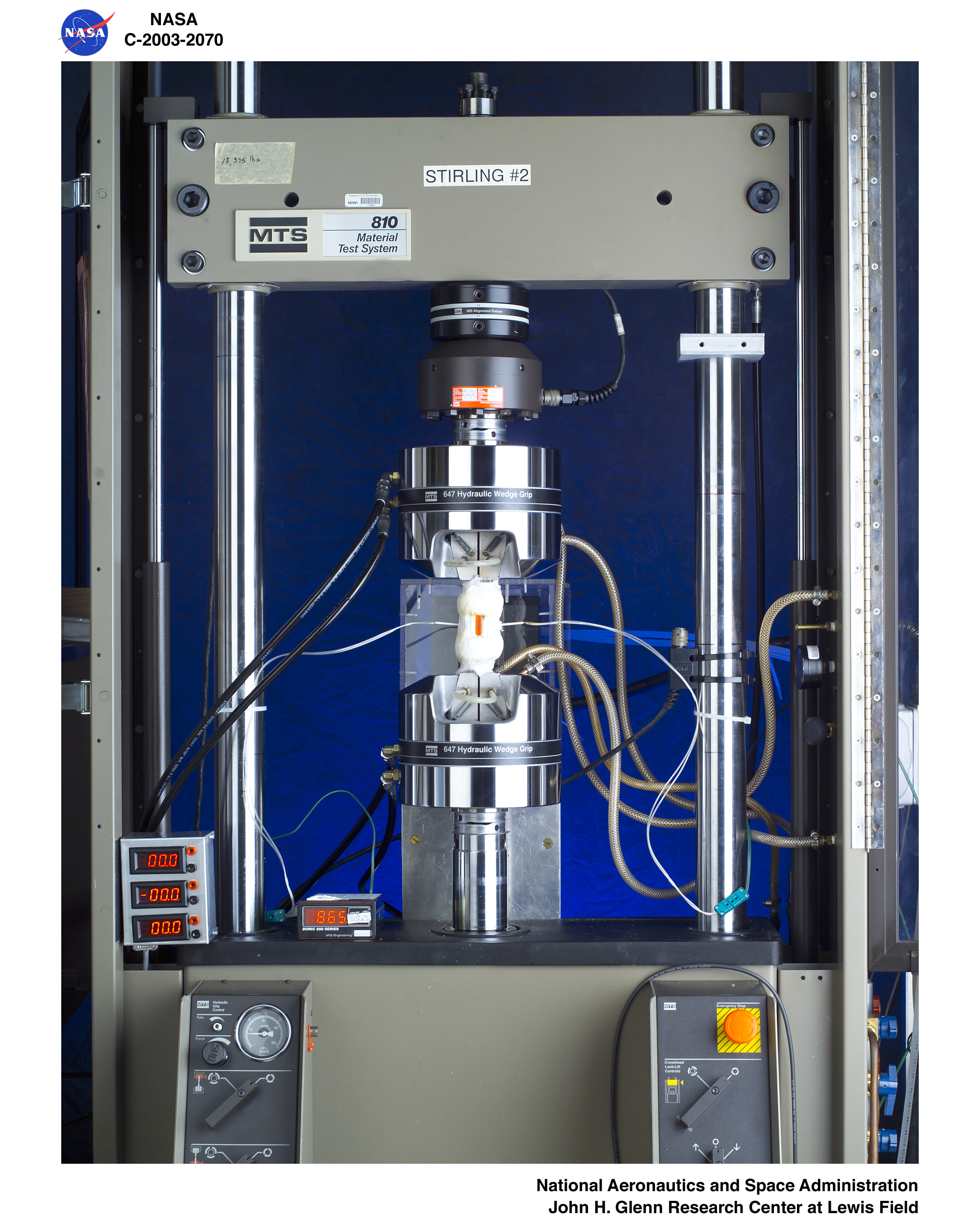 MTS-810 Fatigue test machine at the NASA Glenn Research Center